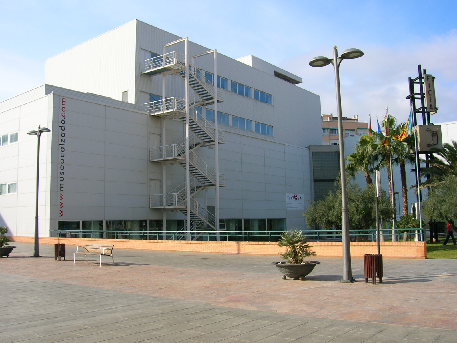 Shoe Museum Elda